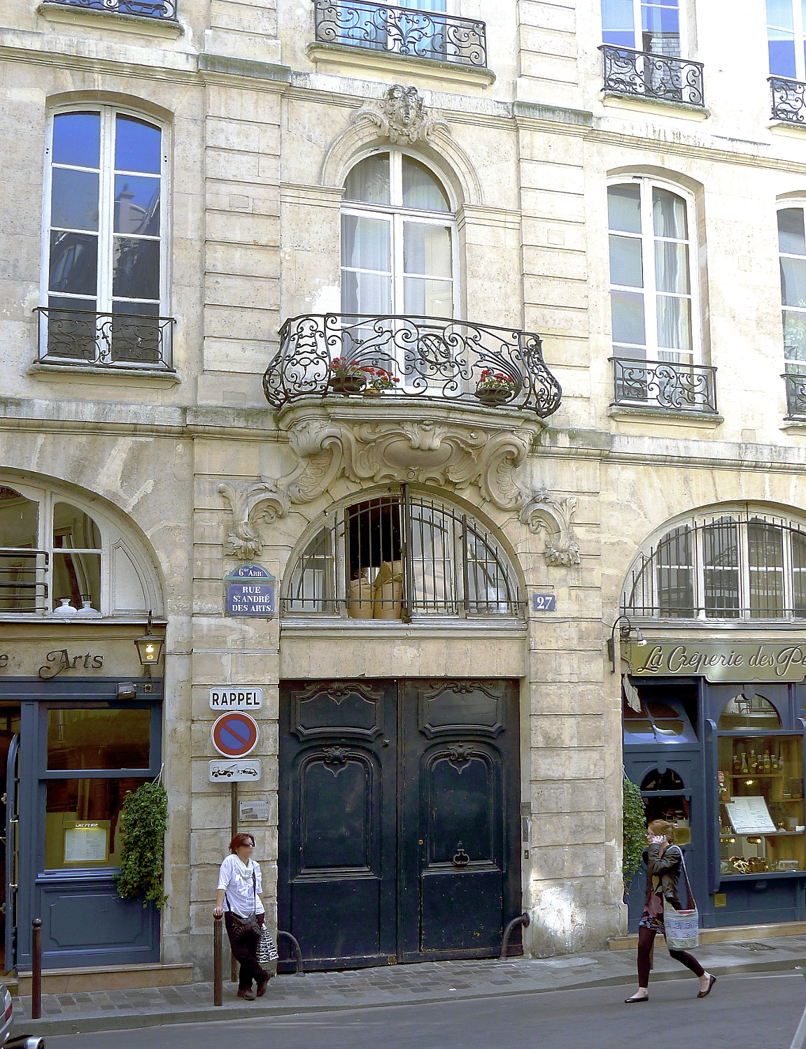 Saint-André-des-Arts street - Paris